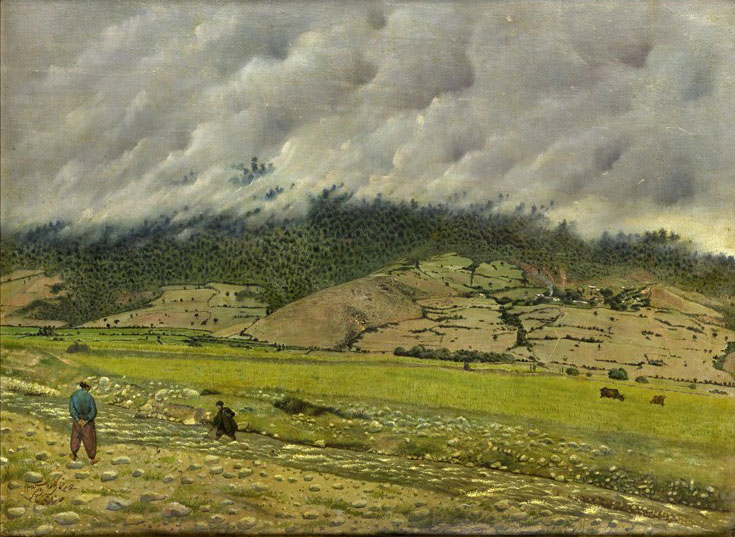 Kelardasht